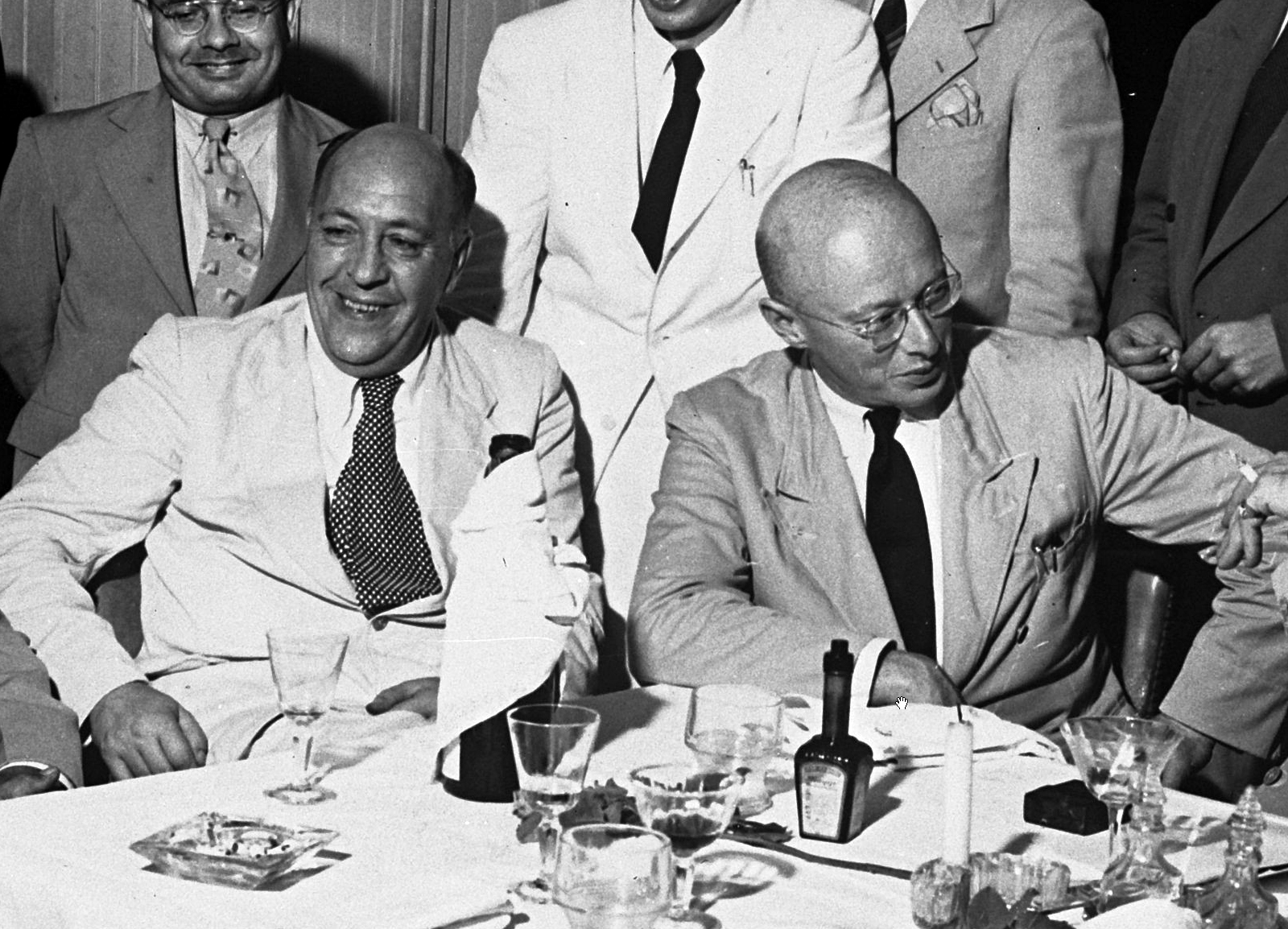 Dutch novelist Piet Bakker (sitting, left) and Dutch illustrator Jo Spier (sitting, right), 3 November 1947. Occasion unknown, possibly at a dinner party on the occasion of the publication of the 3rd edition of Bakker's book Jeugd in de Pijp (Elsevier, 1947)